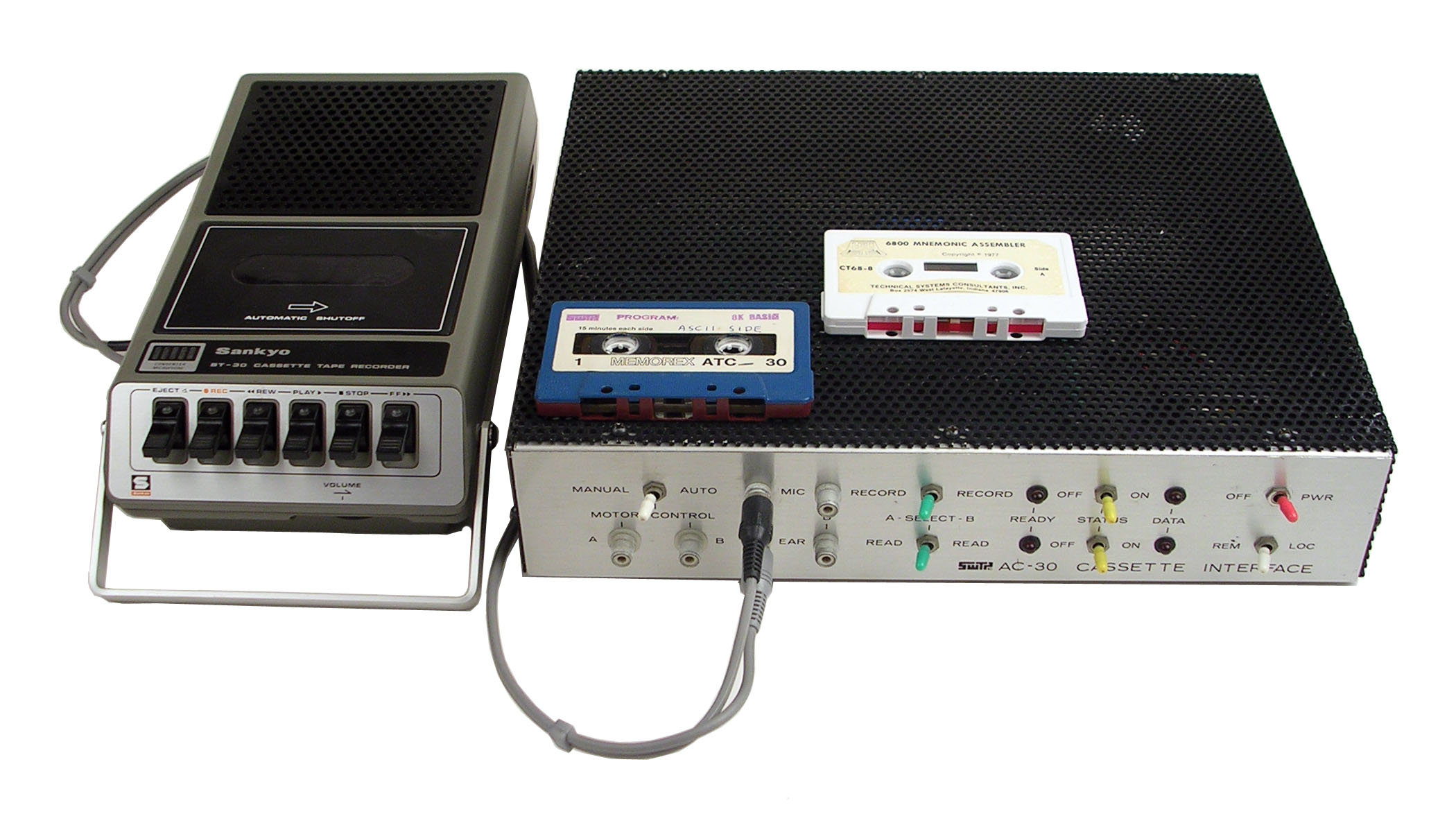 The Southwest Technical Products Corporation (SWTPC) AC-30 tape interface for early personal computers was introduced in May 1976 for $80. Shown with a Sankyo ST-30 cassette recorder, a SWTPC 8K BASIC tape and a TSC 6800 Assembler tape. When the first home computers were introduced in 1975, floppy disk systems cost $2000. Storing data on audio cassettes was the low-cost but slow option that most hobbyists used. SWTPC designed their AC-30 Cassette Interface to meet the proposed "Kansas City Standard" data format. The binary data was recorded using 1200 Hz and 2400 Hz at a 300 baud data rate. At 30 bytes per second it took over 4 minutes to load an 8K file. Photo taken with a Nikon E3200 camera using tungsten lighting by Michael Holley in September 2005.